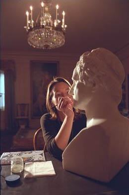 Conservation of a bust of Washington by Giuseppe Ceracchi (1751–1801). Location: the China Room.